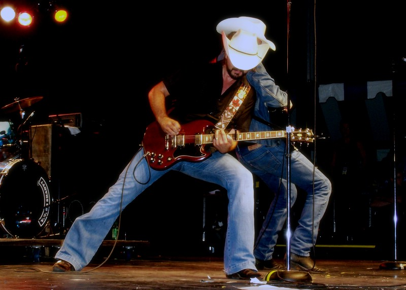 Took this photo of Gordie Johnson and Big Ben of Grady when they were performing in London, Ontario - August 6, 2006. Shot on a Kodak Z7590 Zoom Digital Camera.